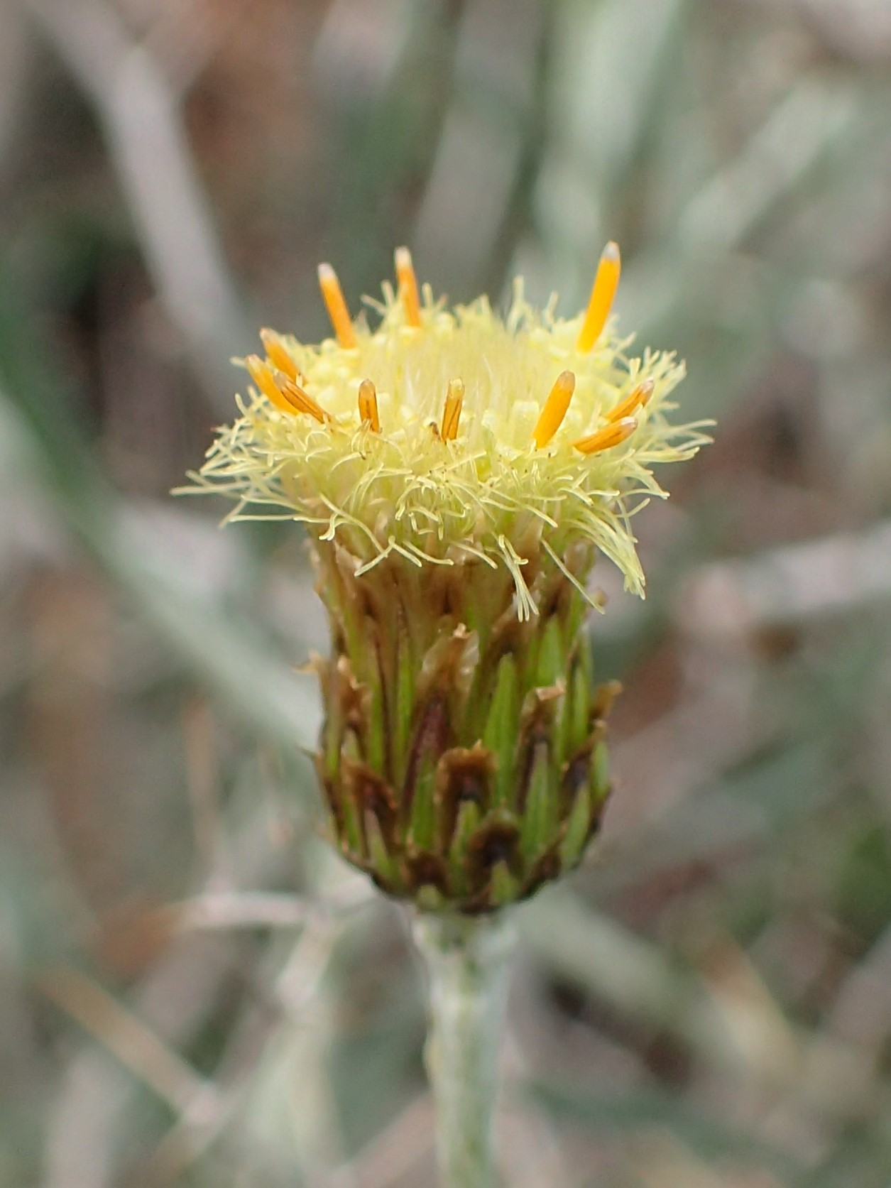 Phagnalon saxatile in Demnate (Béni Mellal-Khénifra, Morocco)